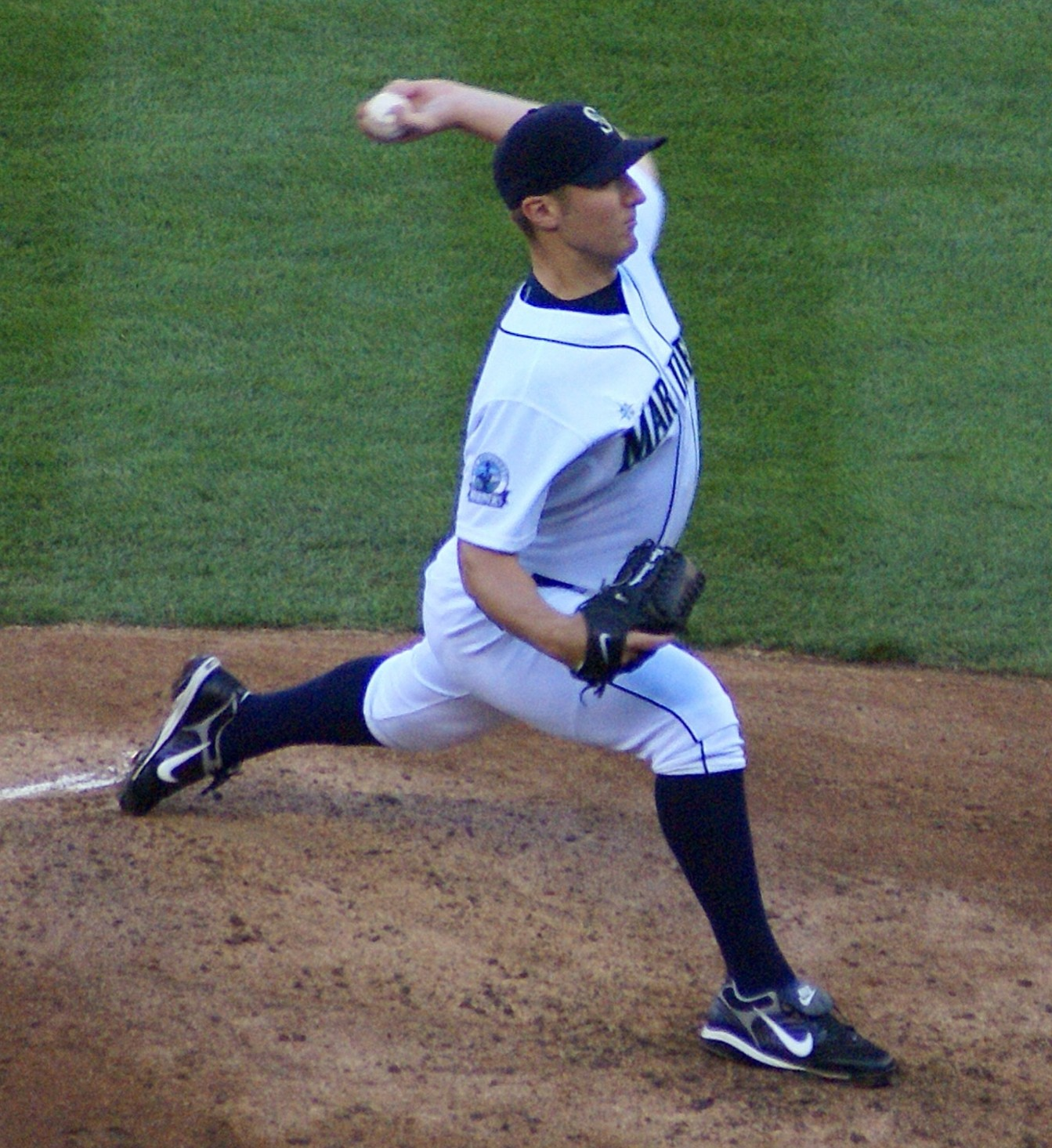 Ryan Feierabend